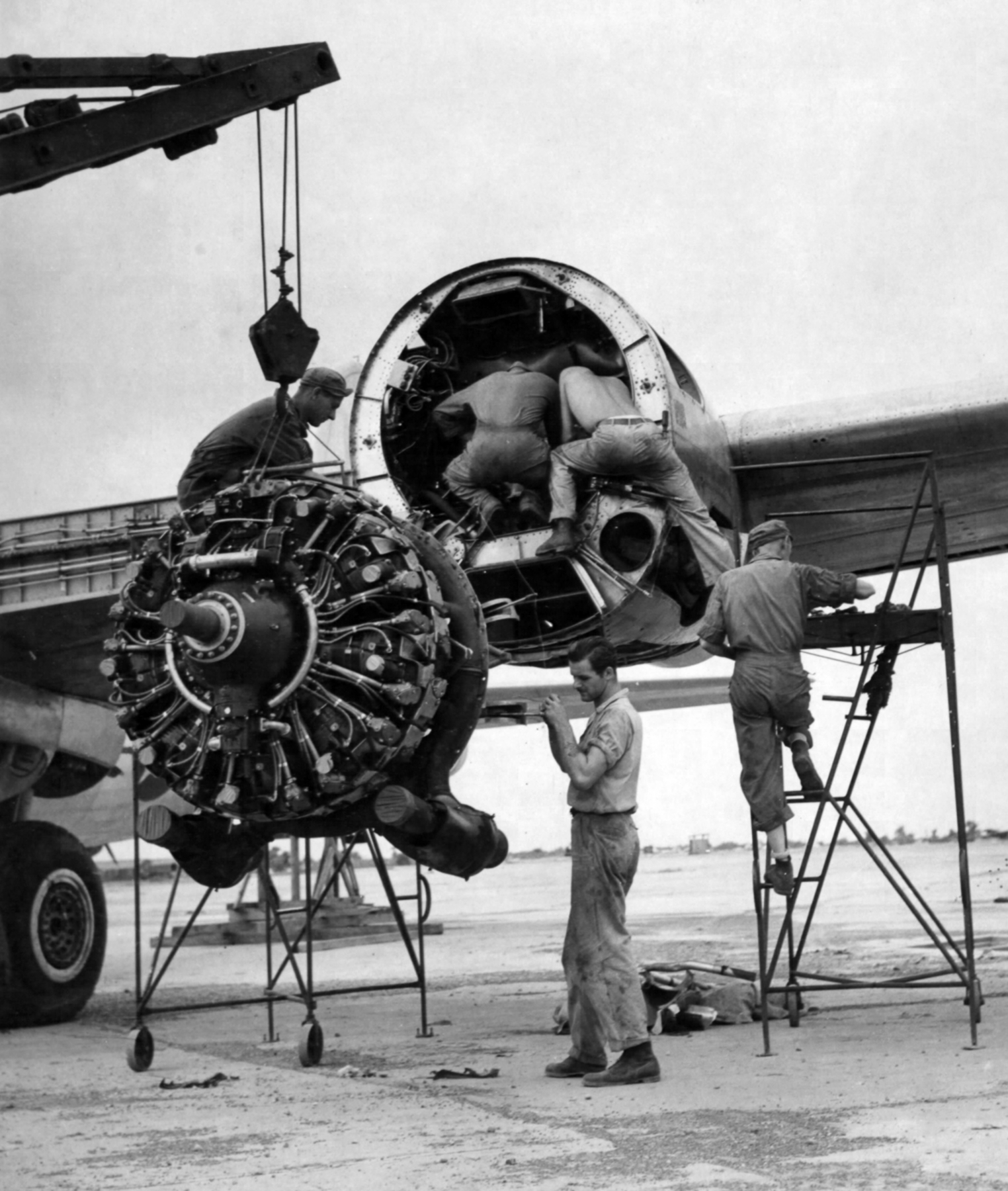 A U.S. Army Air Forces maintenance personnel in India removing a damaged Wright R-3350-23 Duplex-Cyclone engine from a Boeing B-29 Superfortress. They took off any undamaged parts and reused them on the replacement engine.